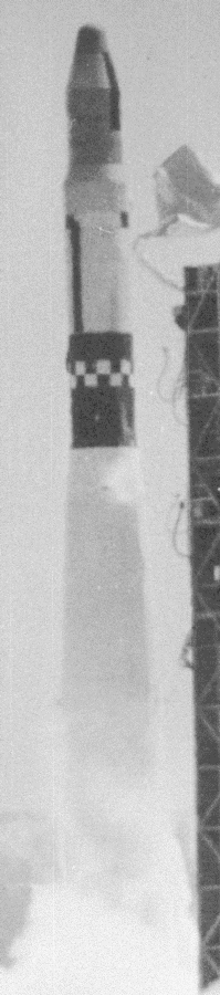 Launch of Corona 94 satellite on-board of Thor SLV-2A Agena D rocket.